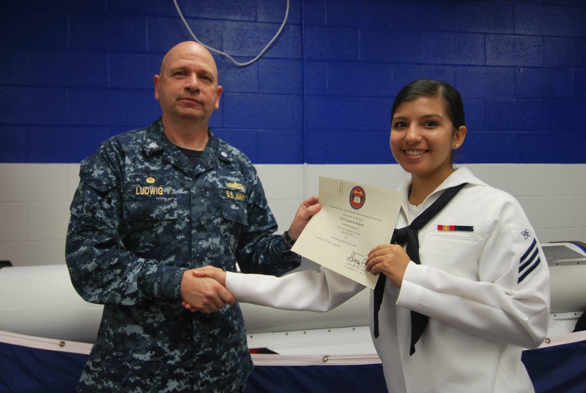 (June 2014) ILLINOIS – Commander Gregory C. Ludwig of the U.S. Navy gives Seaman Victoria Rickford a certificate.